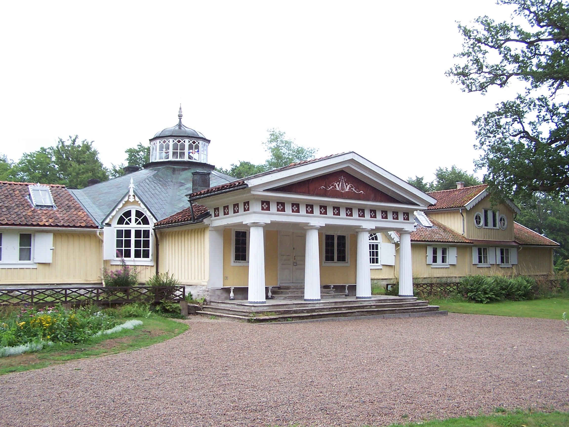 Skärva - The country estate